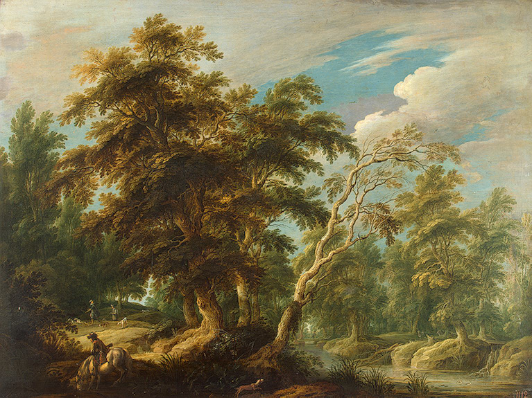 Hunters in a Forest